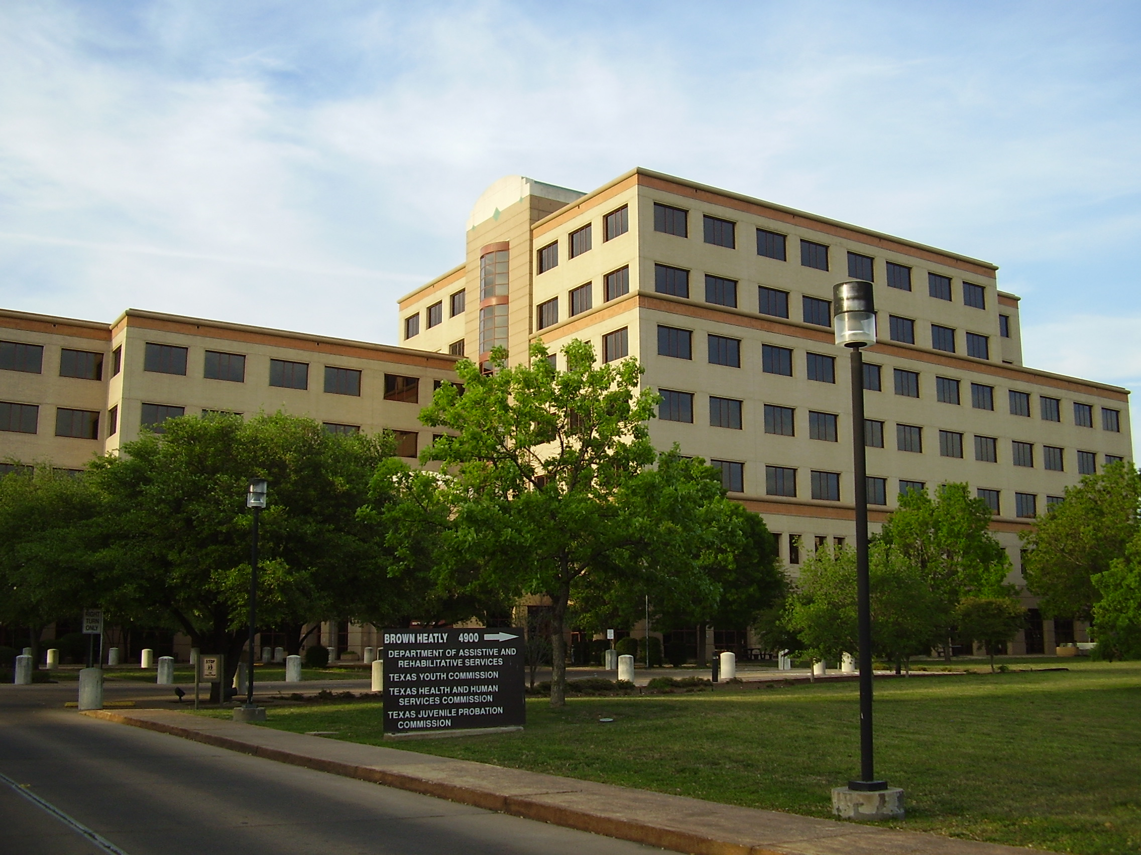 Brown Heatly Building in Austin - Has headquarters for Texas Youth Commission, Texas Health and Human Services Commission and the Texas Juvenile Probation Commission